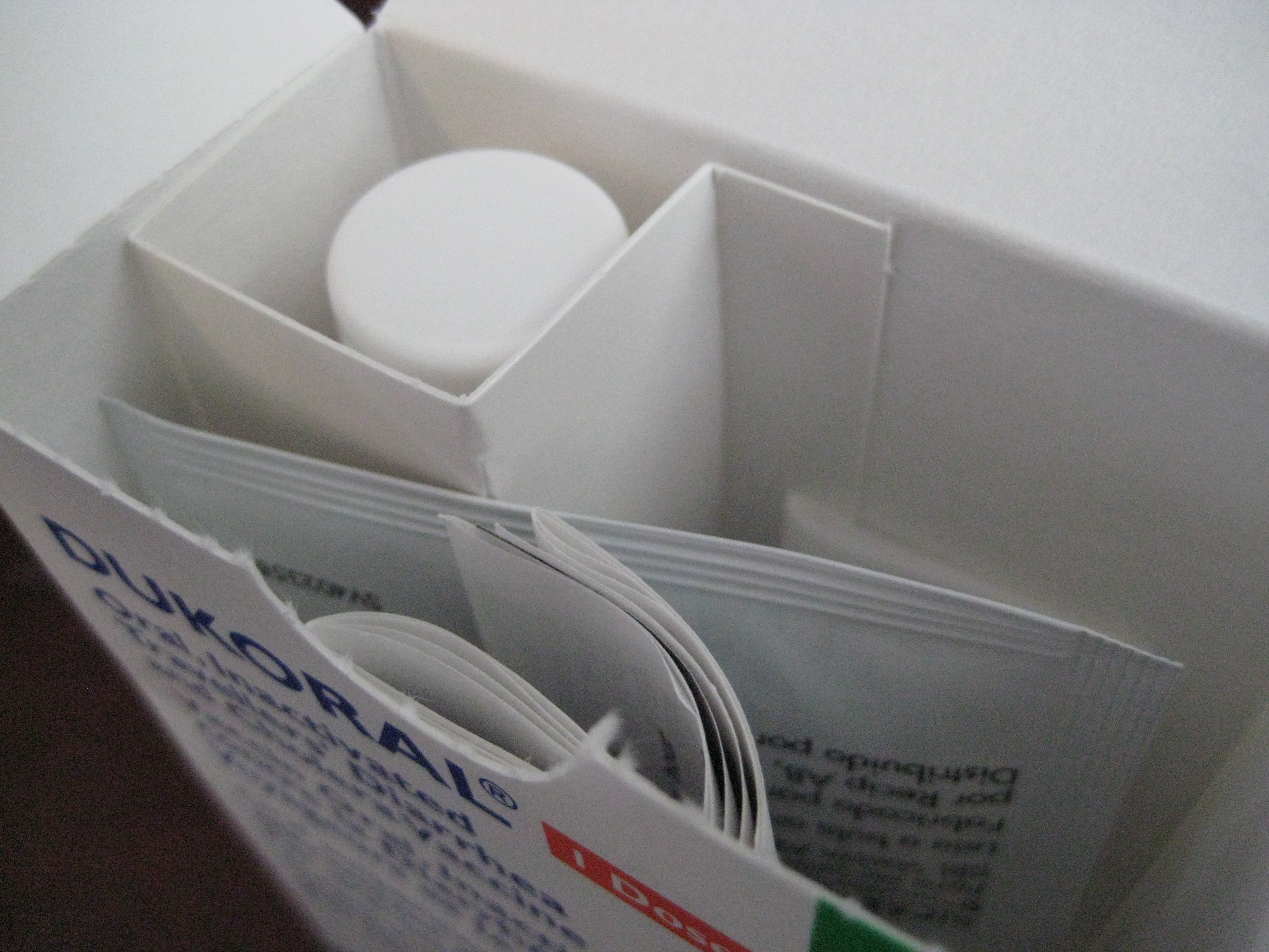 Contents of a box of Dukoral, oral Cholera vaccine. Visible are the top of the vial, the package of bicarbonate buffer and information leaflet.